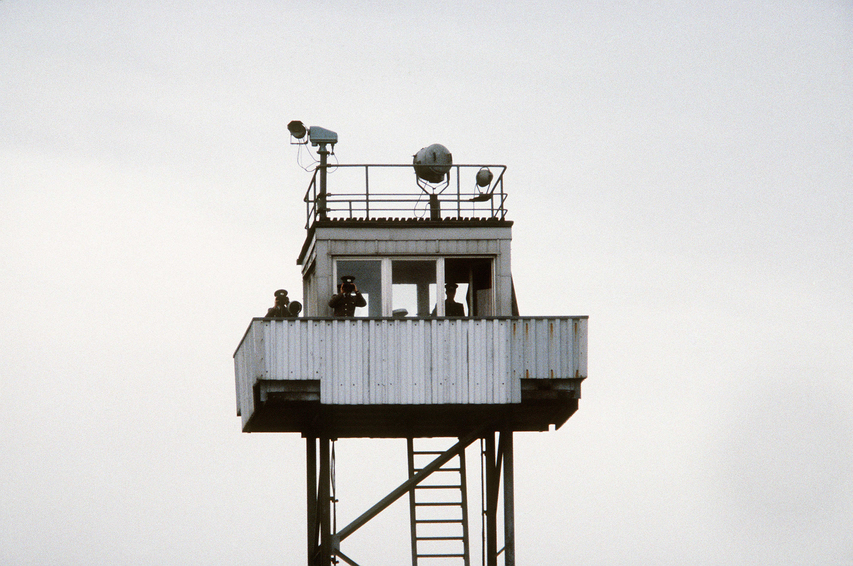 East German border guards man a guard tower at the border between East and West Germany. Notice how the guards are both looking at the photographer.